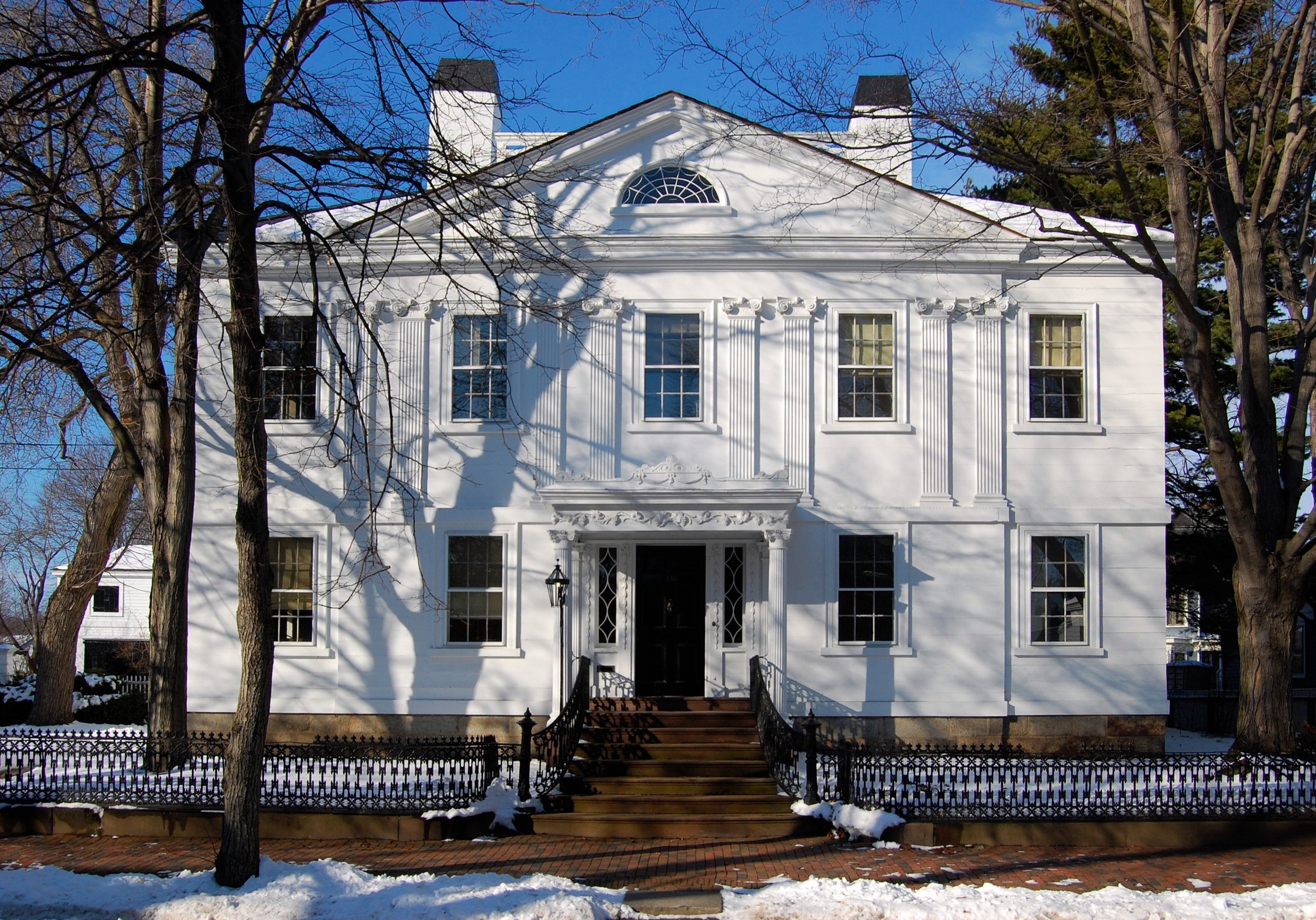 Located in Salem, Massachusetts and owned by the Peabody Essex Museum the Cotting-Smith Assembly House (138 Federal Street), 1782, was built as a Federalist Clubhouse in which balls, concerts, lectures, and other events might be held. George Washington attended a dance here. The original architect is unknown, but the house was later remodeled by Samuel McIntire for use as a private residence. The house is in the Federal style and is listed in the National Register of Historic Places.